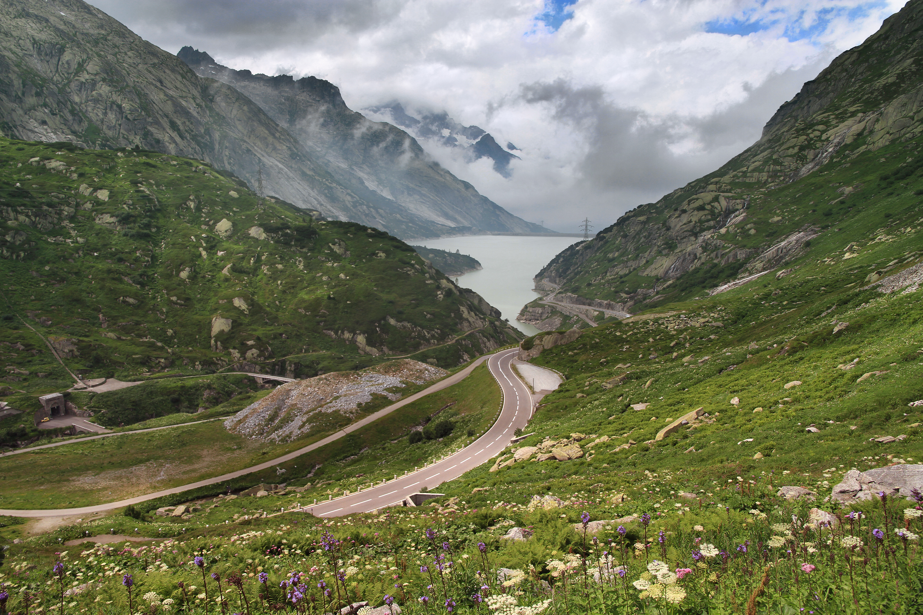 A view to the upper part of Haslital towards northwest, near Grimselpass, Bern, Switzerland in 2010 July. Räterichsbodensee lake is visible in the center of the picture.